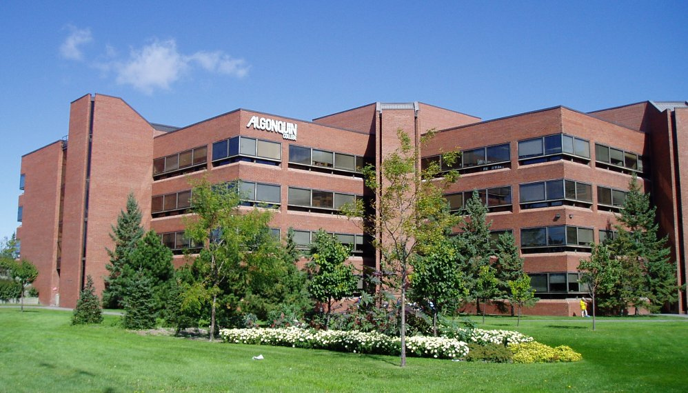 Taken by SimonP